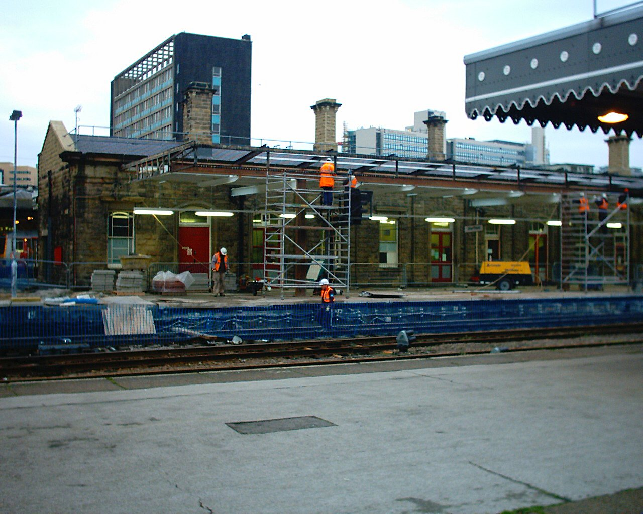 Midland Station platform 5, Sheffield in 2005.